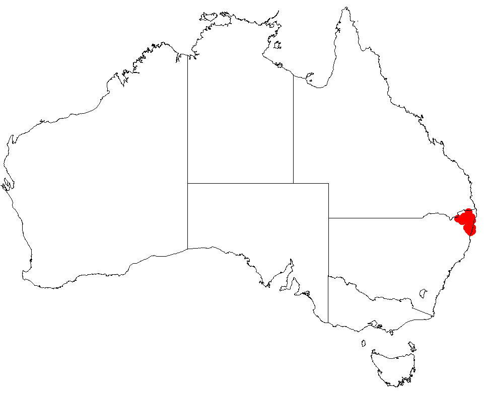 Macrozamia fawcettii occurrence data downloaded from Australasian Virtual Herbarium using